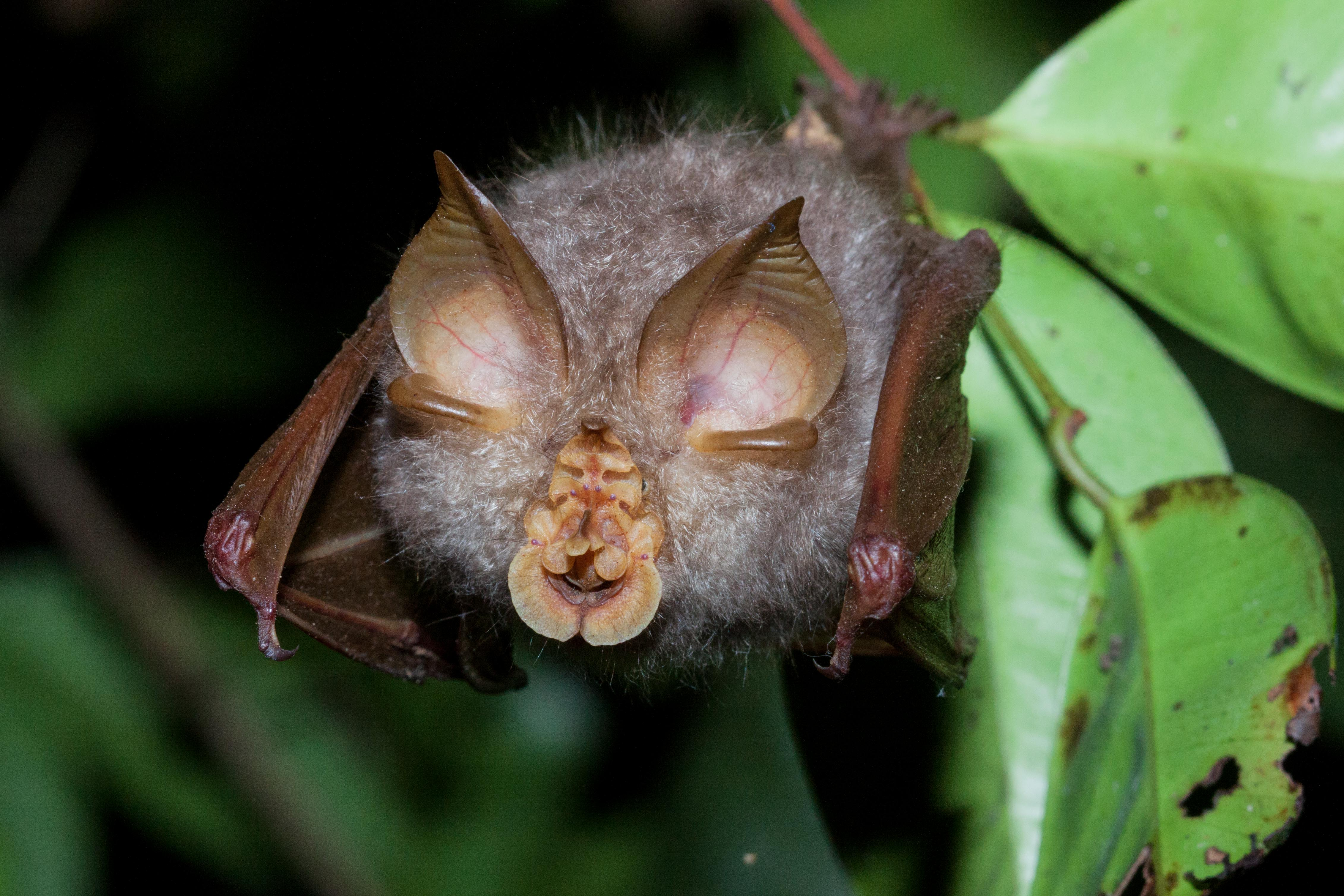 Rhinolophus trifoliatus, Danum Valley, Malaysia